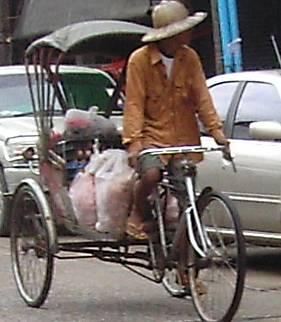 Cycle rickshaw in Yasothon, called samlo [TH: สามล้อ tricycle]. Any three-wheeled vehicle in Thailand is called SAMLO, whether pedaled or motorized, including motorcycles with sidecars, but only the cycle ricksaw or pedicab is permitted for hire in Yasothon. Though there are also two-wheeled motorcycle taxis, marked by yellow license plates and a driver wearing an identifying vest, such are principally for taking passengers to outlying areas.